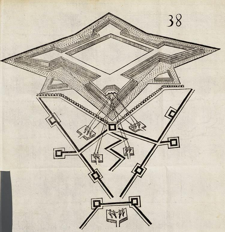 Drawing of a siege in perspective